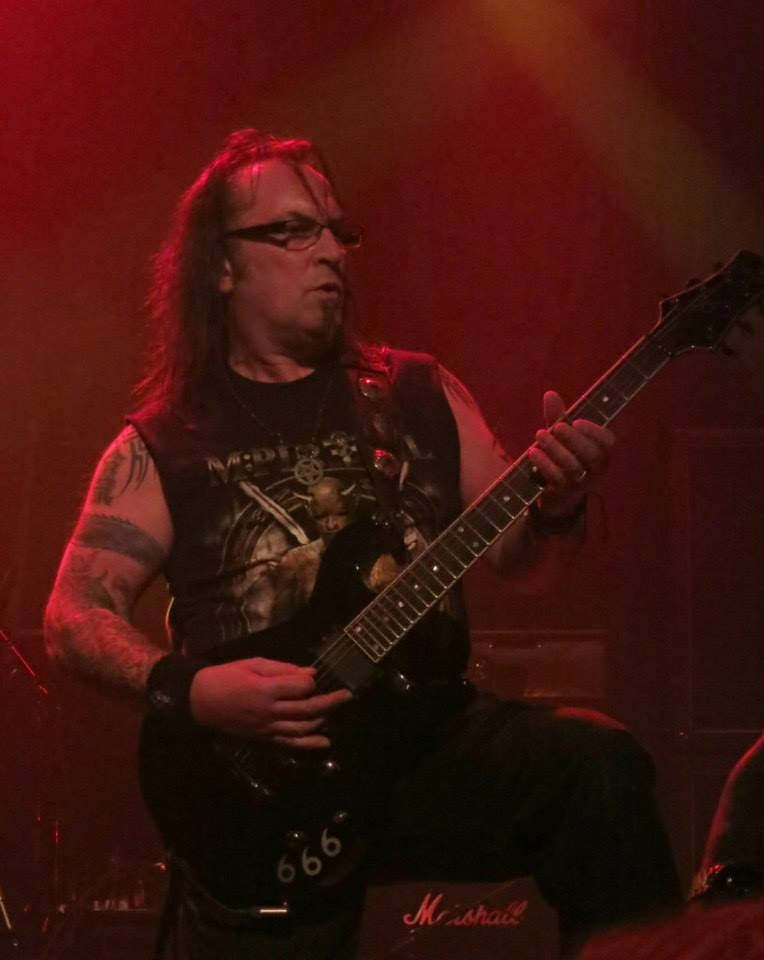 Jeffrey "Mantas" Dunn, performing in London with M:Pire Of Evil.